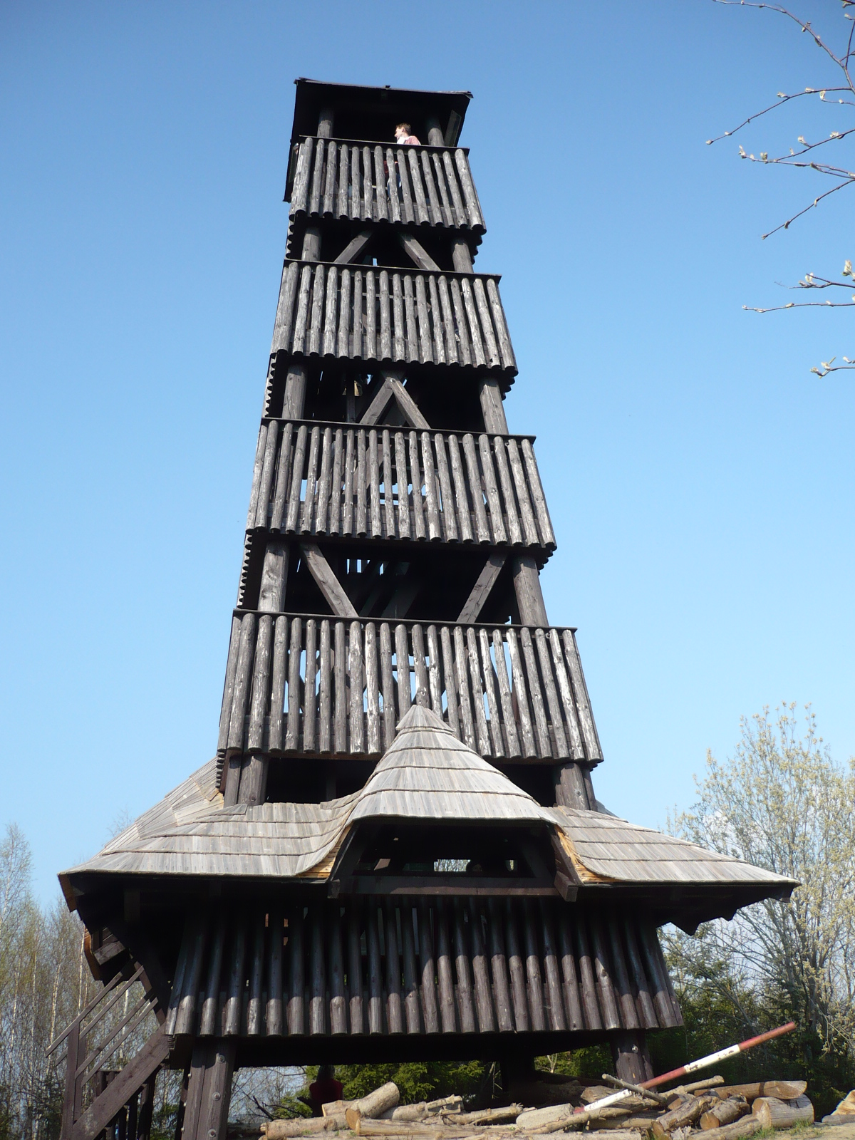 Cubuv kopec – hill and observation tower